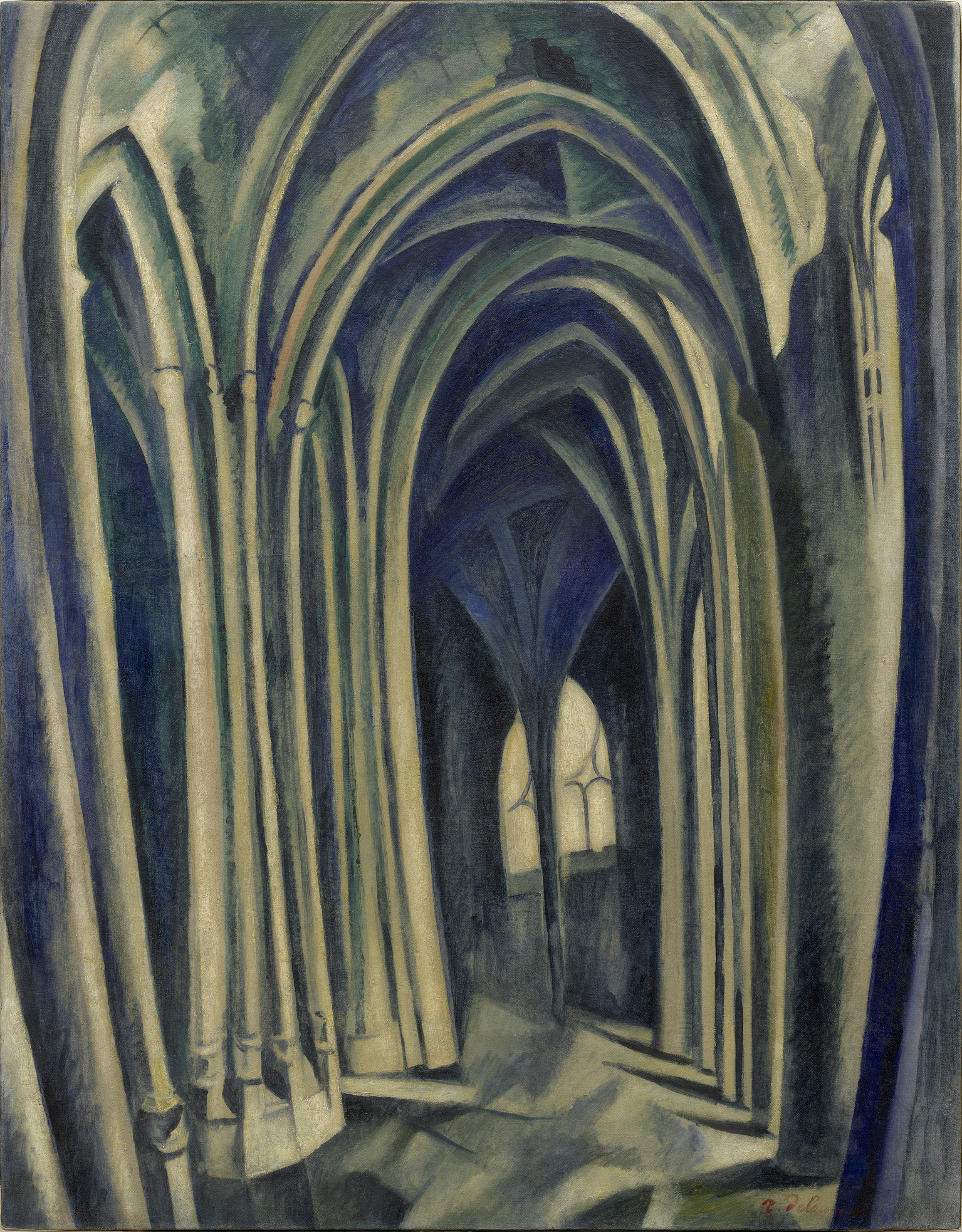 This file was provided to Wikimedia Commons by the Solomon R. Guggenheim Museum as part of a cooperation project. The Solomon R. Guggenheim Museum provides images depicting artworks which are public domain or licensed under a free license.